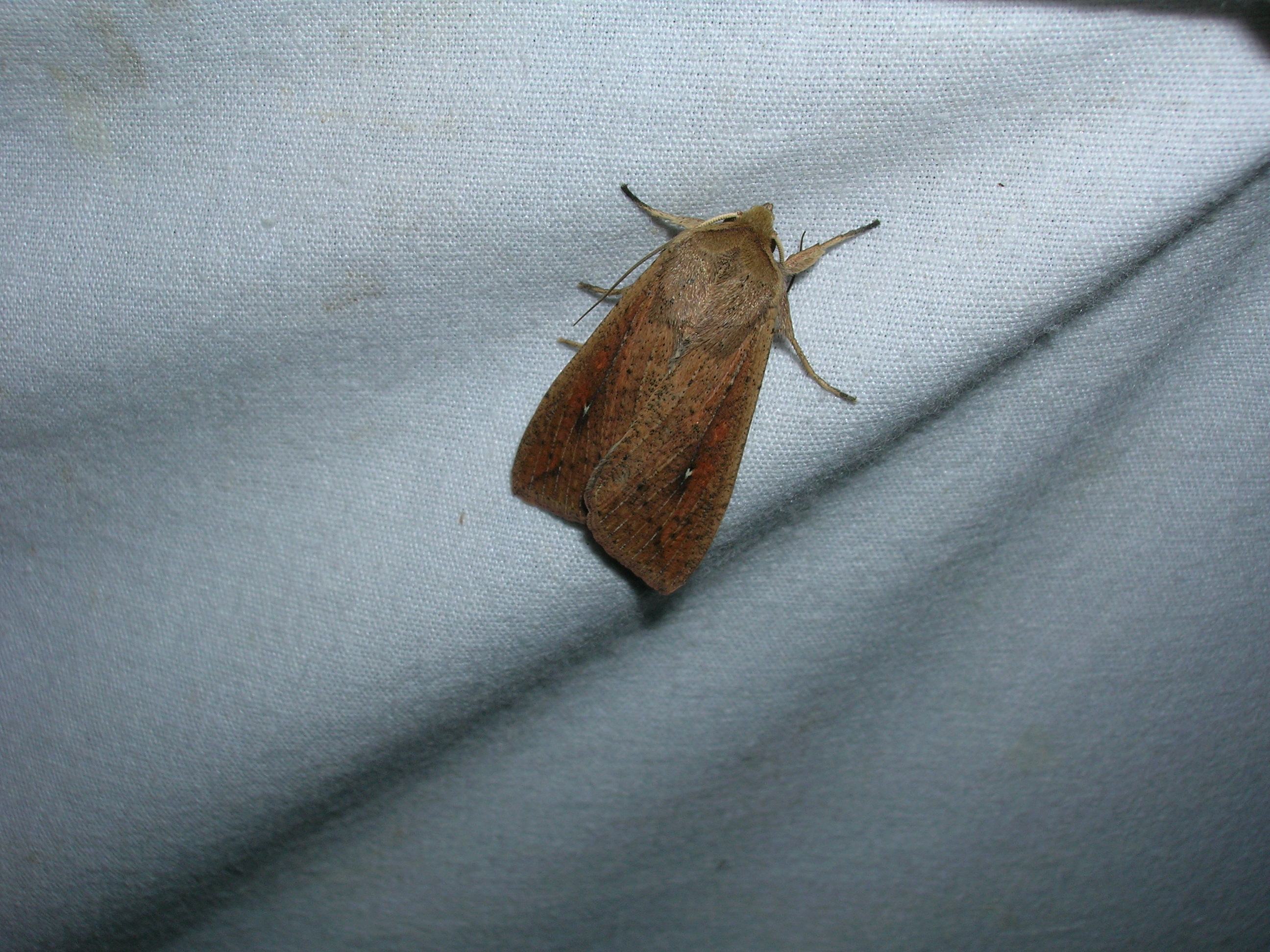 Uresiphita polygonalis